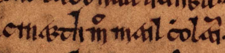 An excerpt from folio 15r of Oxford Bodleian Library MS Rawlinson B 488 (the Annals of Tigernach). The excerpt refers to Cináed mac Maíl Choluim, King of Alba.